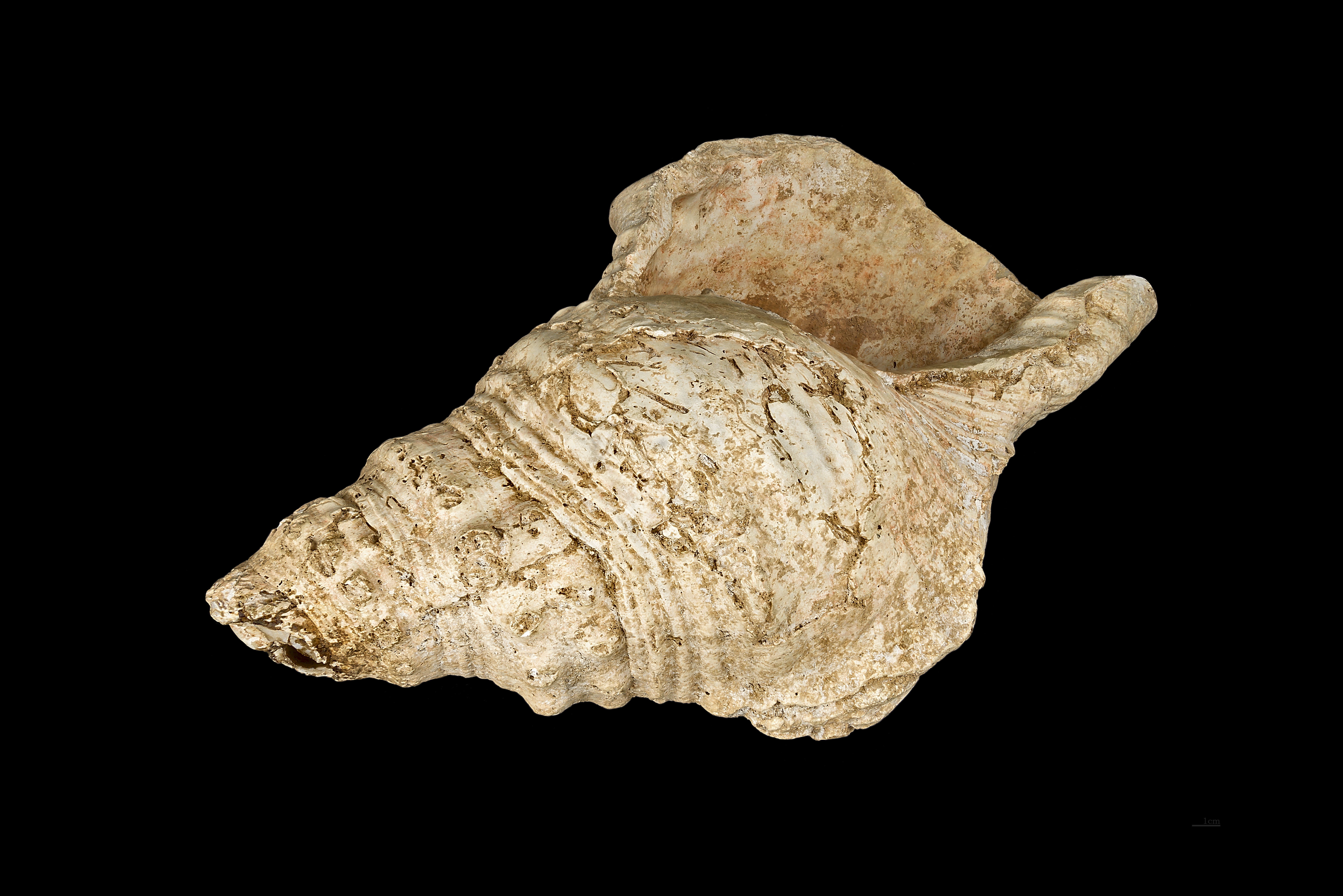 Conch (instrument) (Charonia lampas) Period : Magdalenian (from 17 000 to 10 000 Before the Current Era) Locality : Marsoulas cave, Marsoulas, Haute-Garonne, France. Archaeological digs in 1931 by Henri Begouen (University of Toulouse) and J. Townsend Russell (Smithsonian Institution). Muséum de Toulouse MHNT.PRE.2010.0.1.2 Size: 31x18x18cm